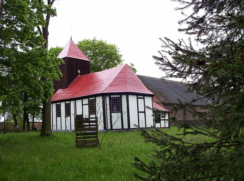 Saint Joseph church in Płotno